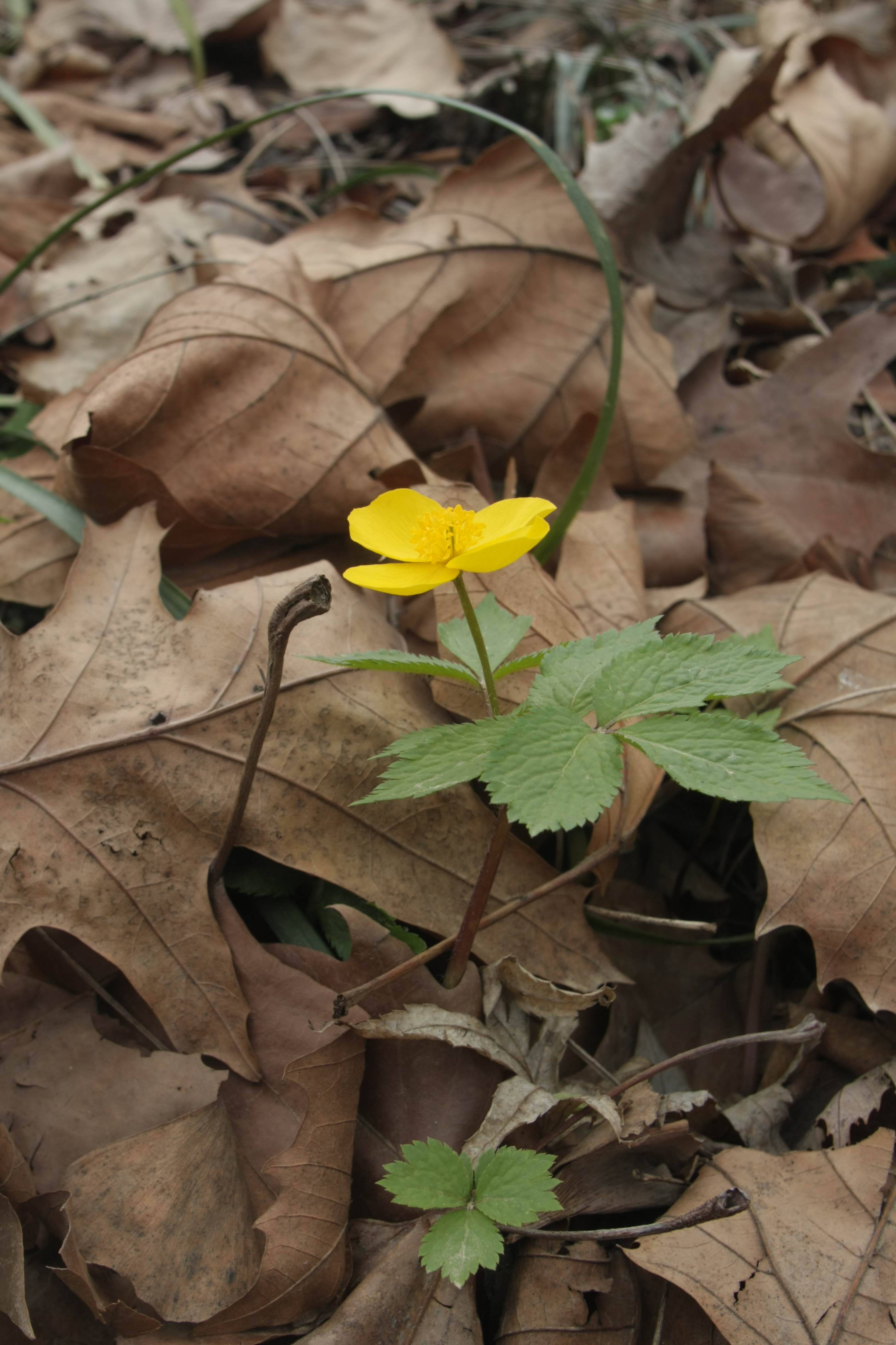 Hylomecon vernalis in Bupyeong, Korea. 부평나비공원에서, 피나물